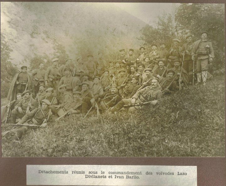 IMRO cheti of Lazar Divlianec and Ivan Burlyo